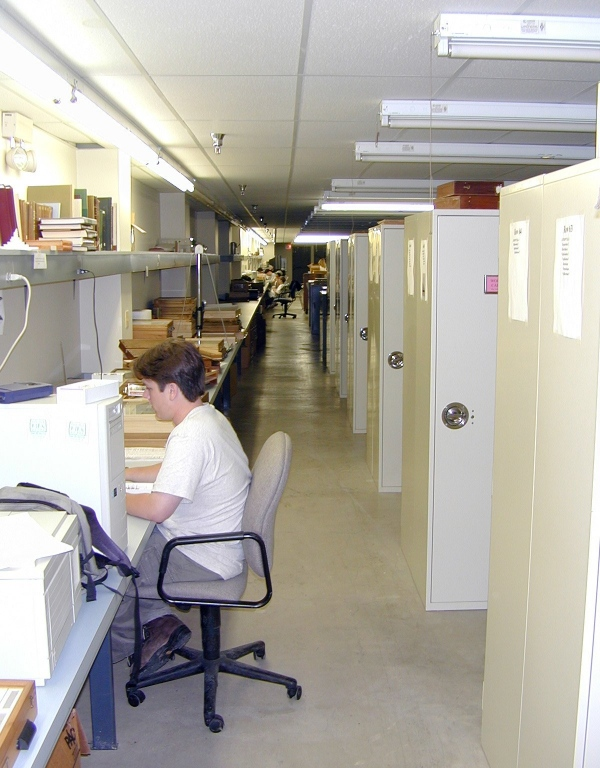 Field Museum of Natural History, Chicago, Illinois, USA